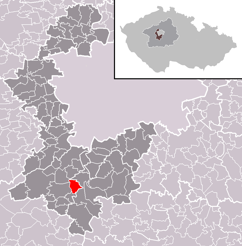 Location of Hvozdnice municipality within Prague-West District and administrative area of Černošice as a Municipality with Extended Competence.